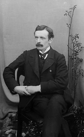 Cropped and retouched copy of 1 negative : glass, dry plate, b&w ; 16.5 x 21.5 cm.